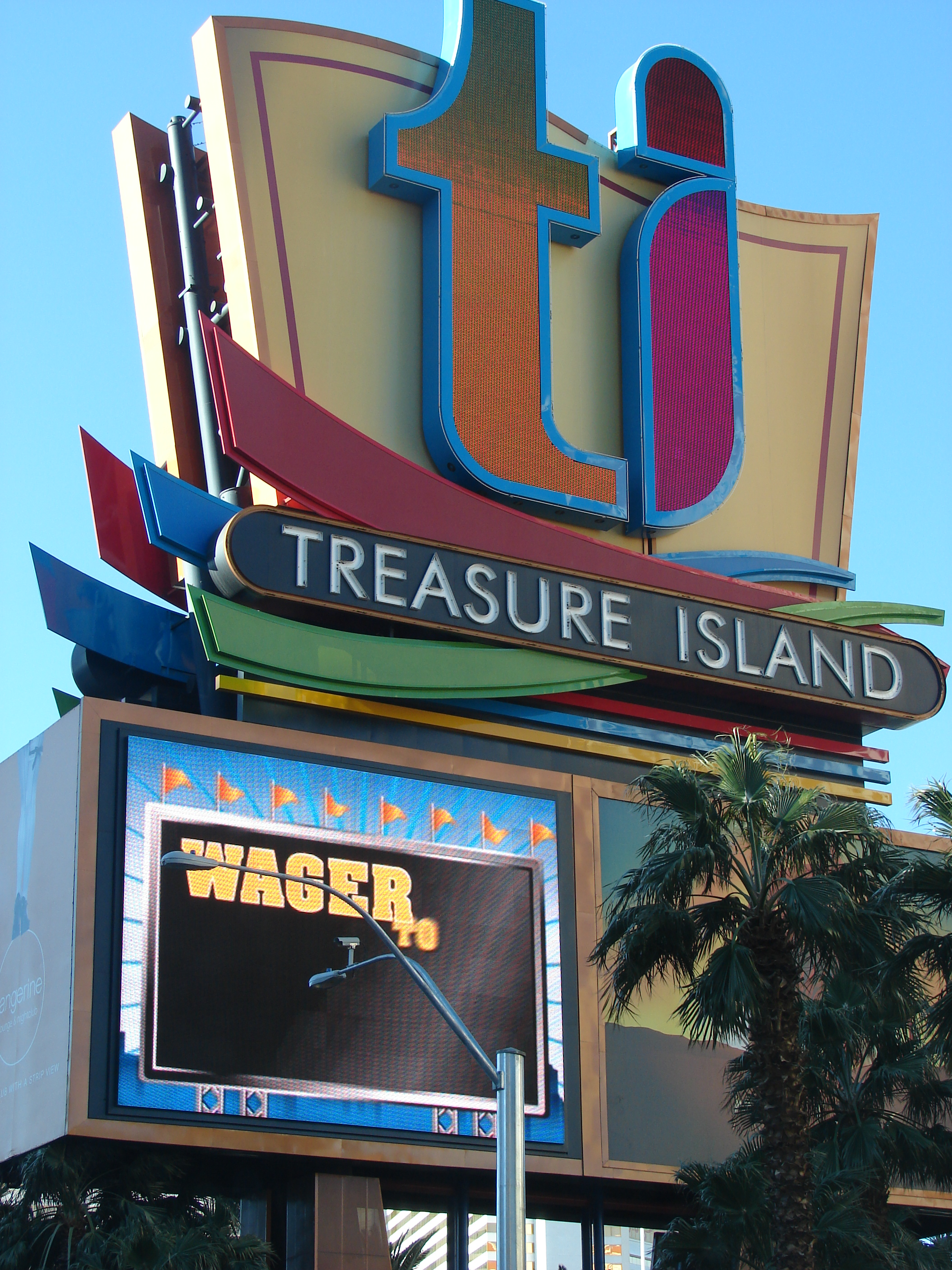 Location: Nevada, Treasure Island Las Vegas